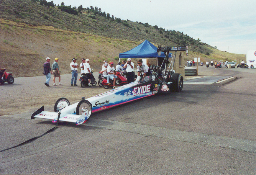 Tony Schumacher, the first driver to exceed 330 mphTony Schumacher